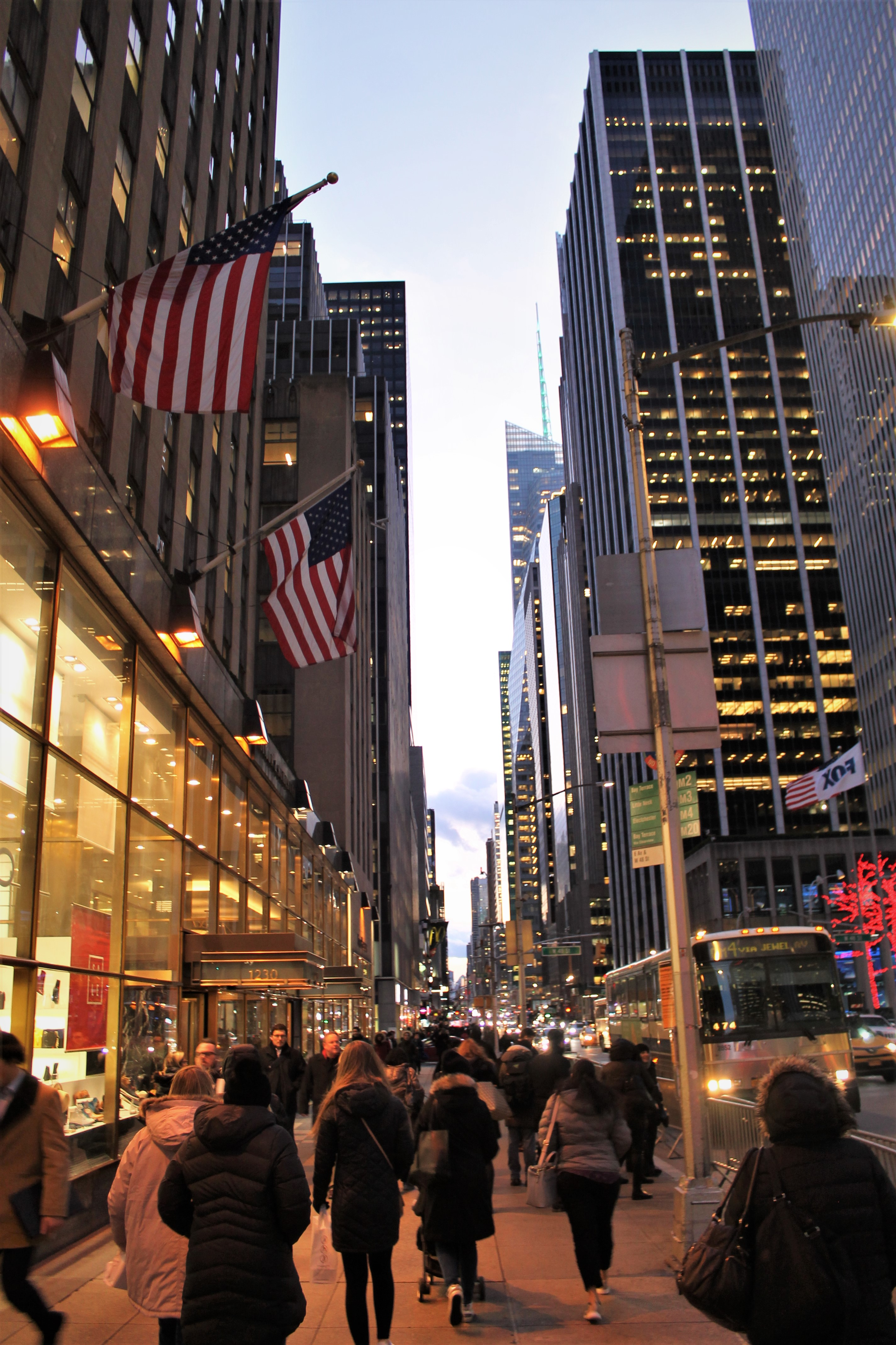 This photo is of the fast-paced streets of New York City, taken near Rockefeller Plaza in January 2020.